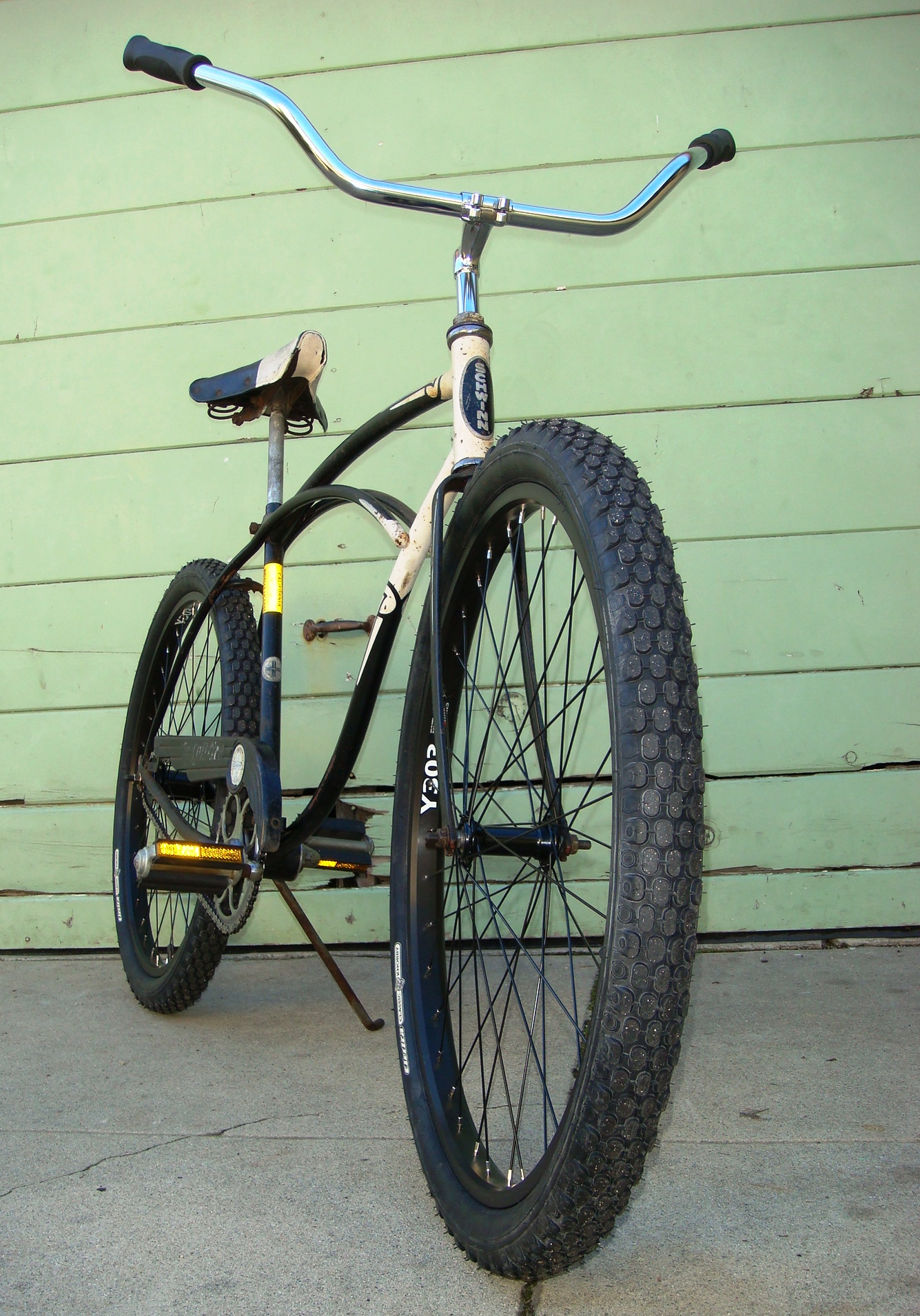 New neck, bars, grips, knobby tires, rims and chain. Re-greased all moving parts and went over the rusty chrome with a fine steel wool. She rides like a dream! As for the faded, rusty paint... I didn't touch it, I liked the old petina that the bikes picked up over the years. She's my new "Rat Ride" (aka Klunker) for the comming spring and summer. JOY!!!